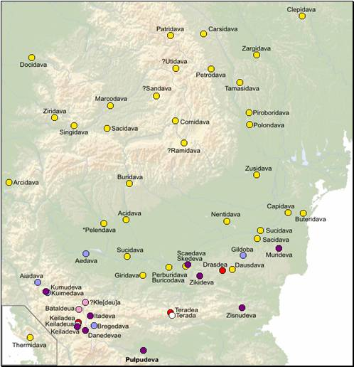 Onomastic range of the Dacian towns with the dava ending, covering Dacia, Moesia, Thrace and Dalmatia